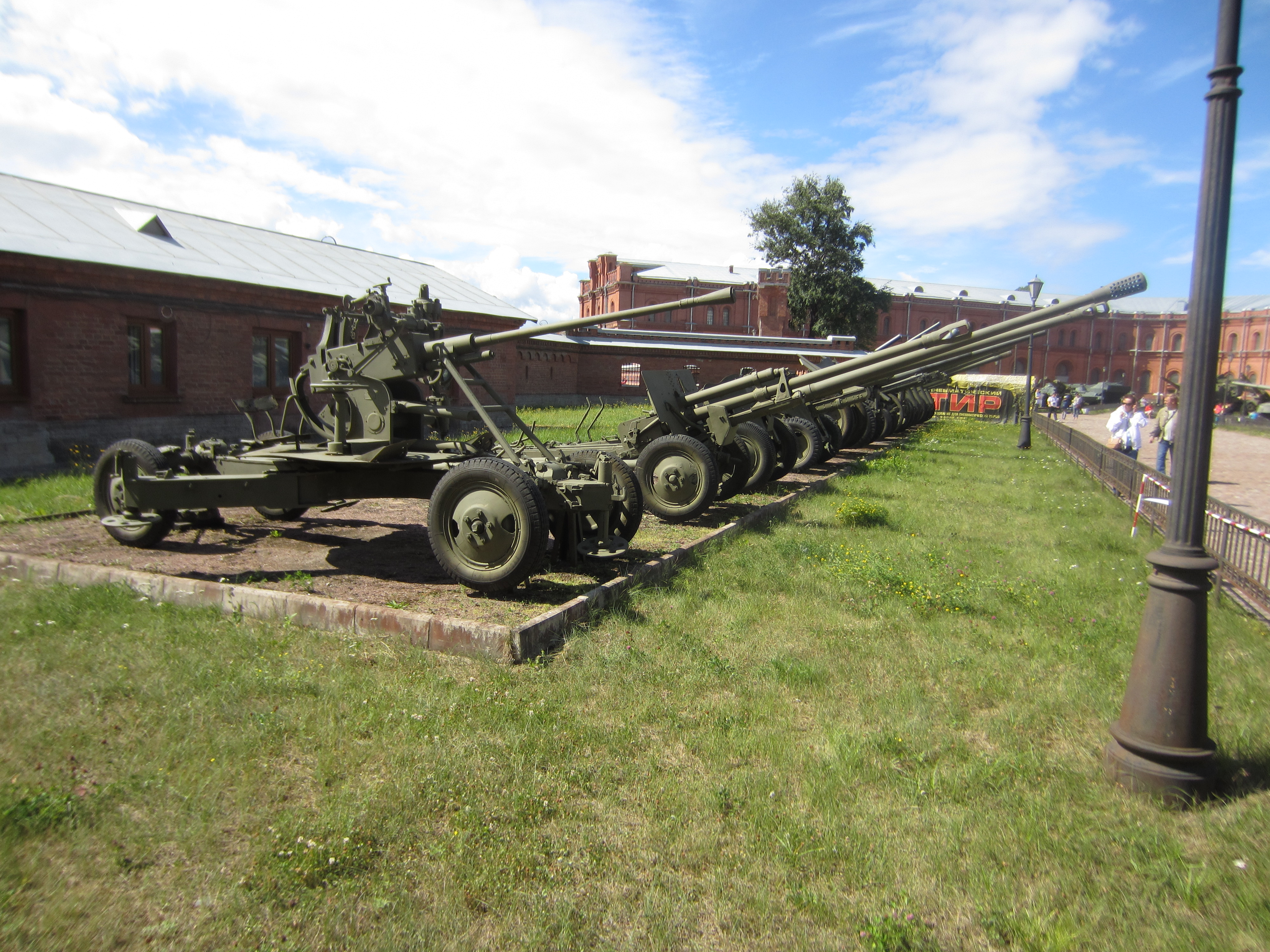 37 mm automatic air defense gun M1939 (61-K) in Saint-Petersburg Artillery museum